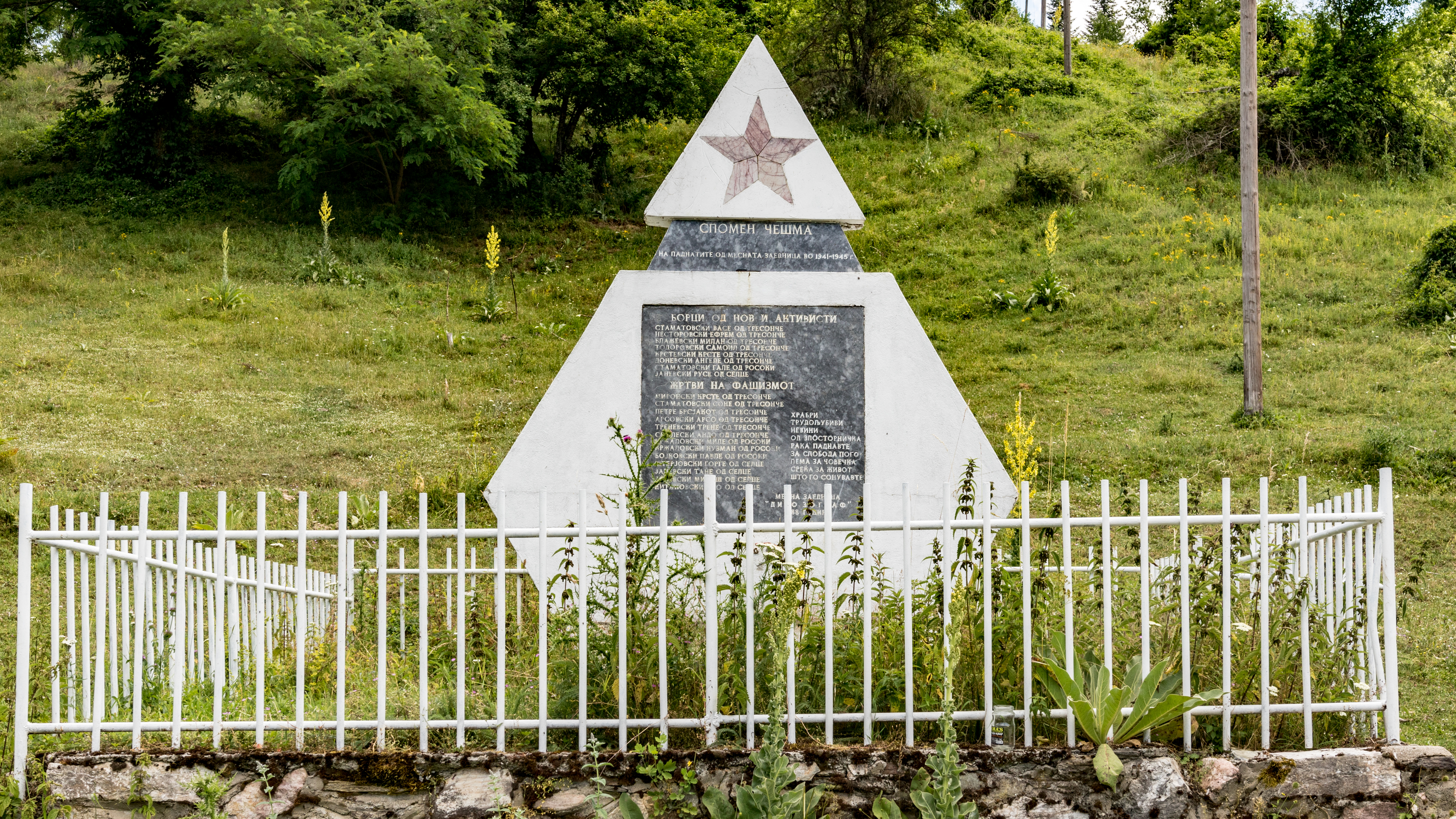 Monument in the village Tresonče